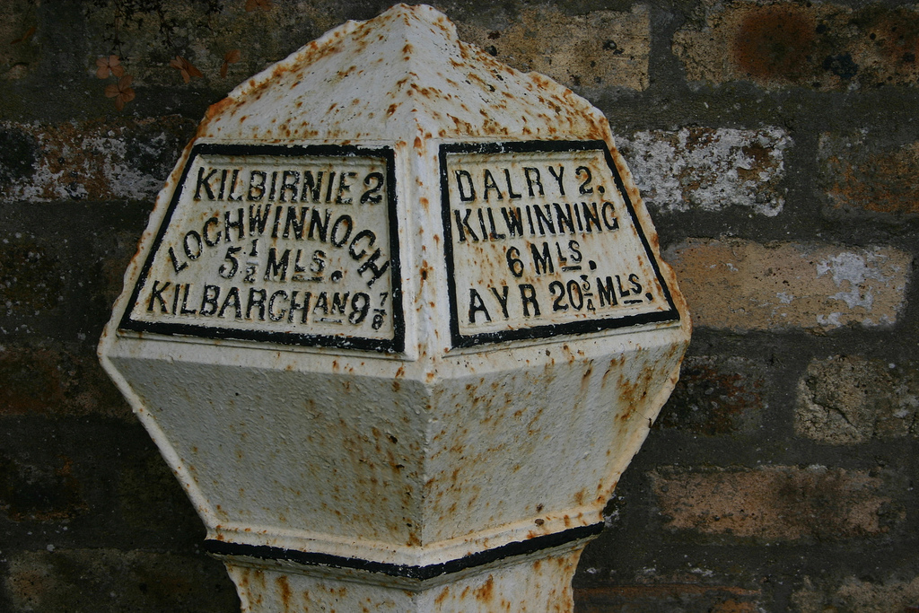 I must sit down with a map and try and triangulate the distances to work out where this originally stood.